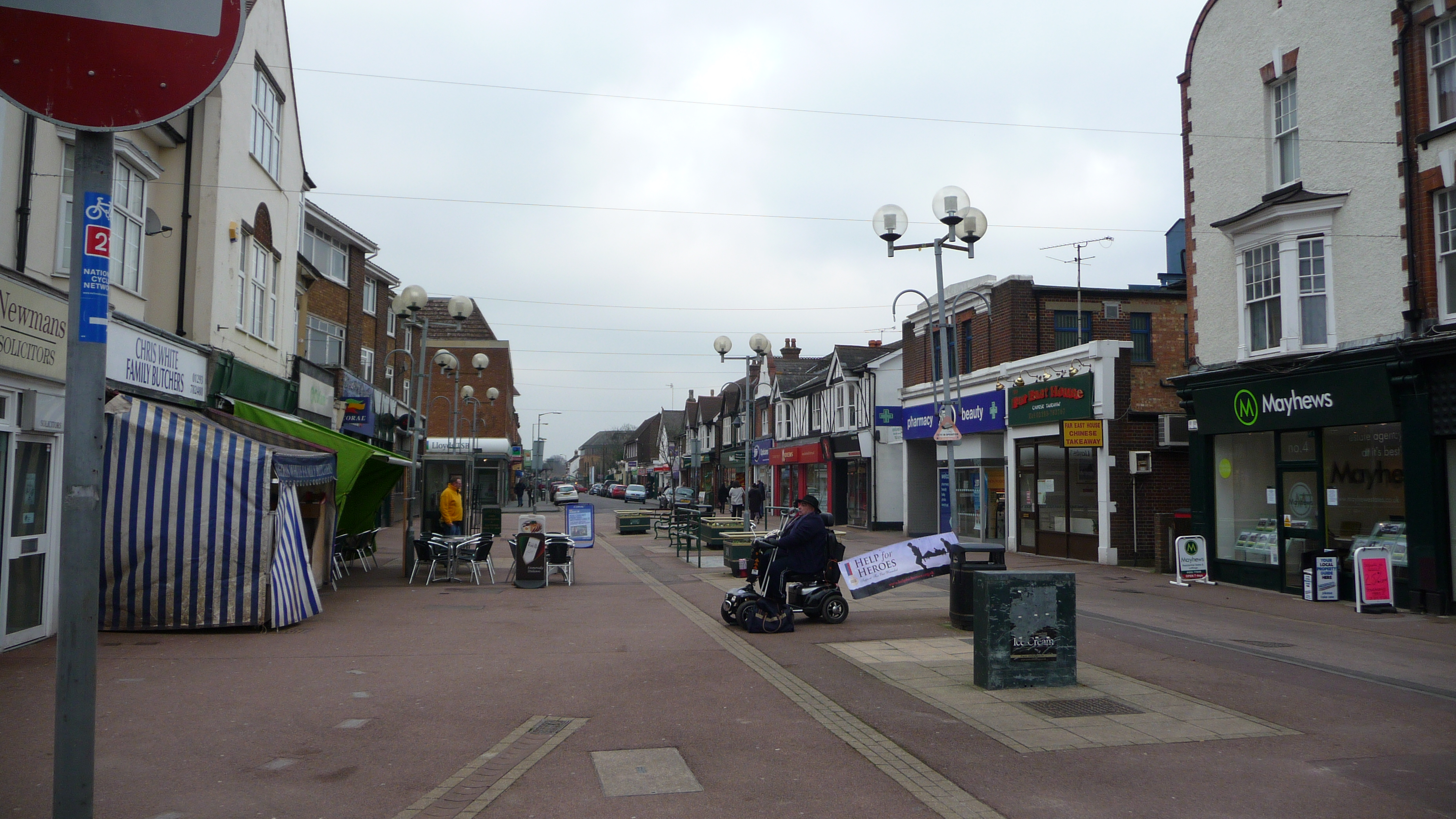 Horley High Street, Horley, Surrey, looking along the road from the junction with Victoria Road and Massetts Road.